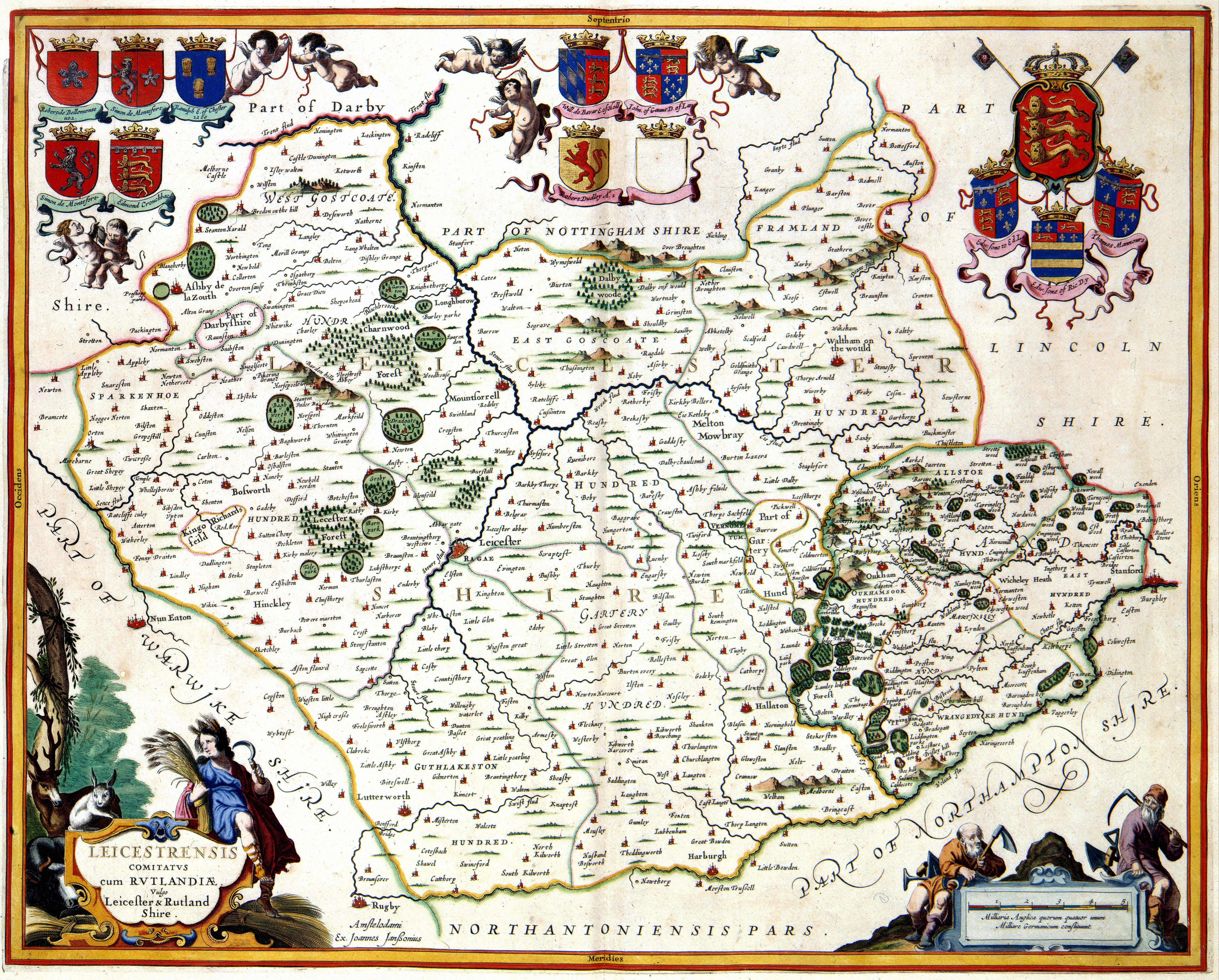 In 1645, Joan Blaeu (1598-1673) successfully published an atlas of England. Blaeu based this atlas on the Theatre of the Empire of Great Britaine published by his English colleague John Speed (1552-1629) in 1611. Infected by this success, Blaeus neighbour, Jan Janssonius (1588-1664), copied the complete atlas. Janssonius published this pirate issue in 1646. This map of Leicestershire has been taken from Janssonius atlas.